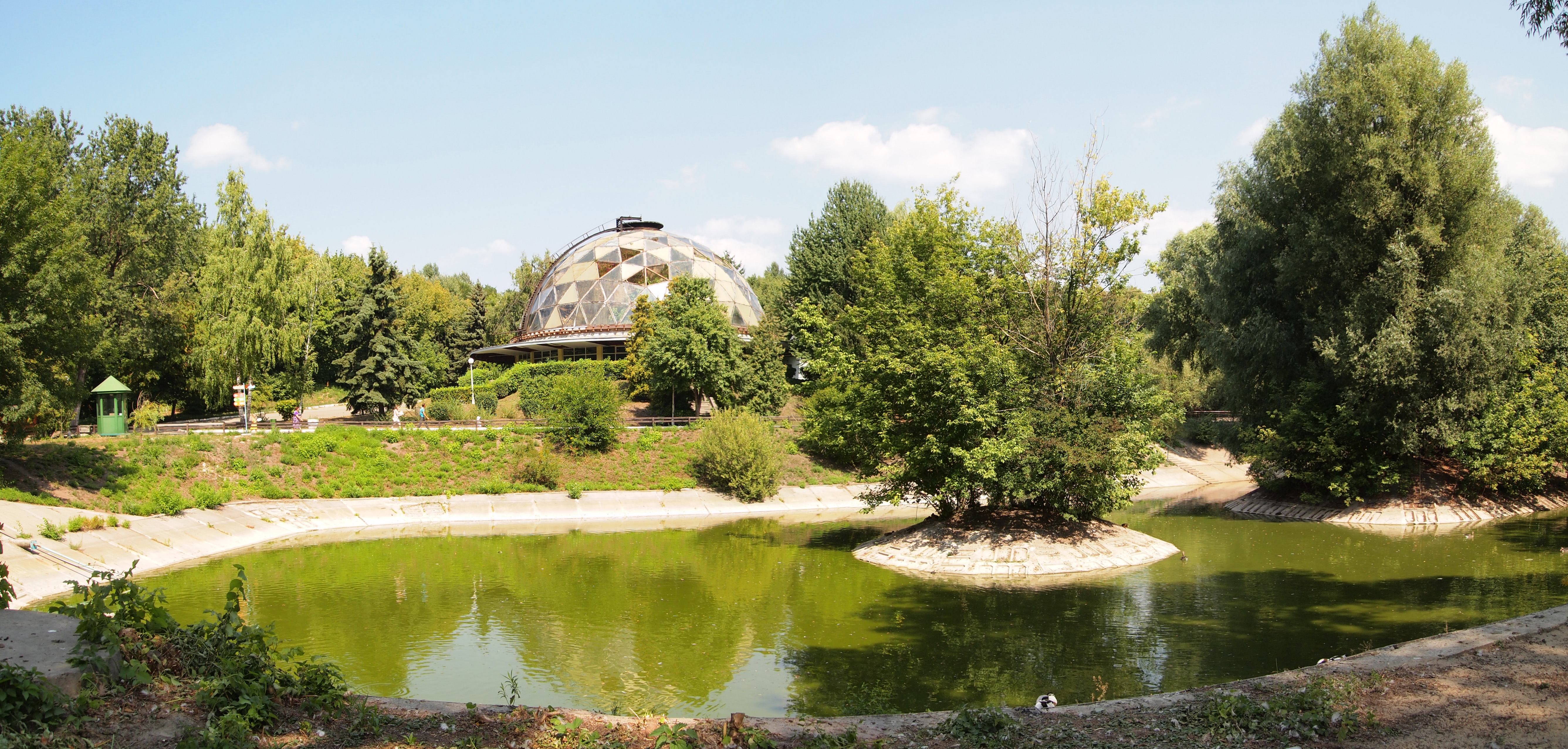 Pool in Kiev Zoo This photograph was taken with a Olympus E-PL1.